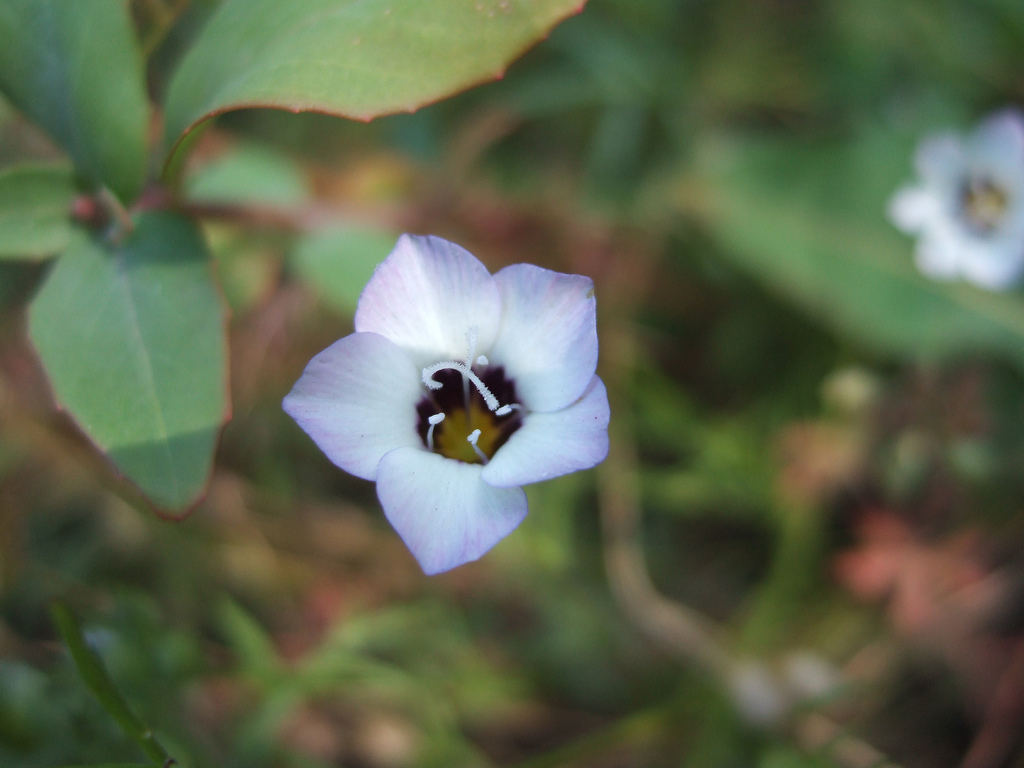 Gilia tricolor English common name: Birds Eyes